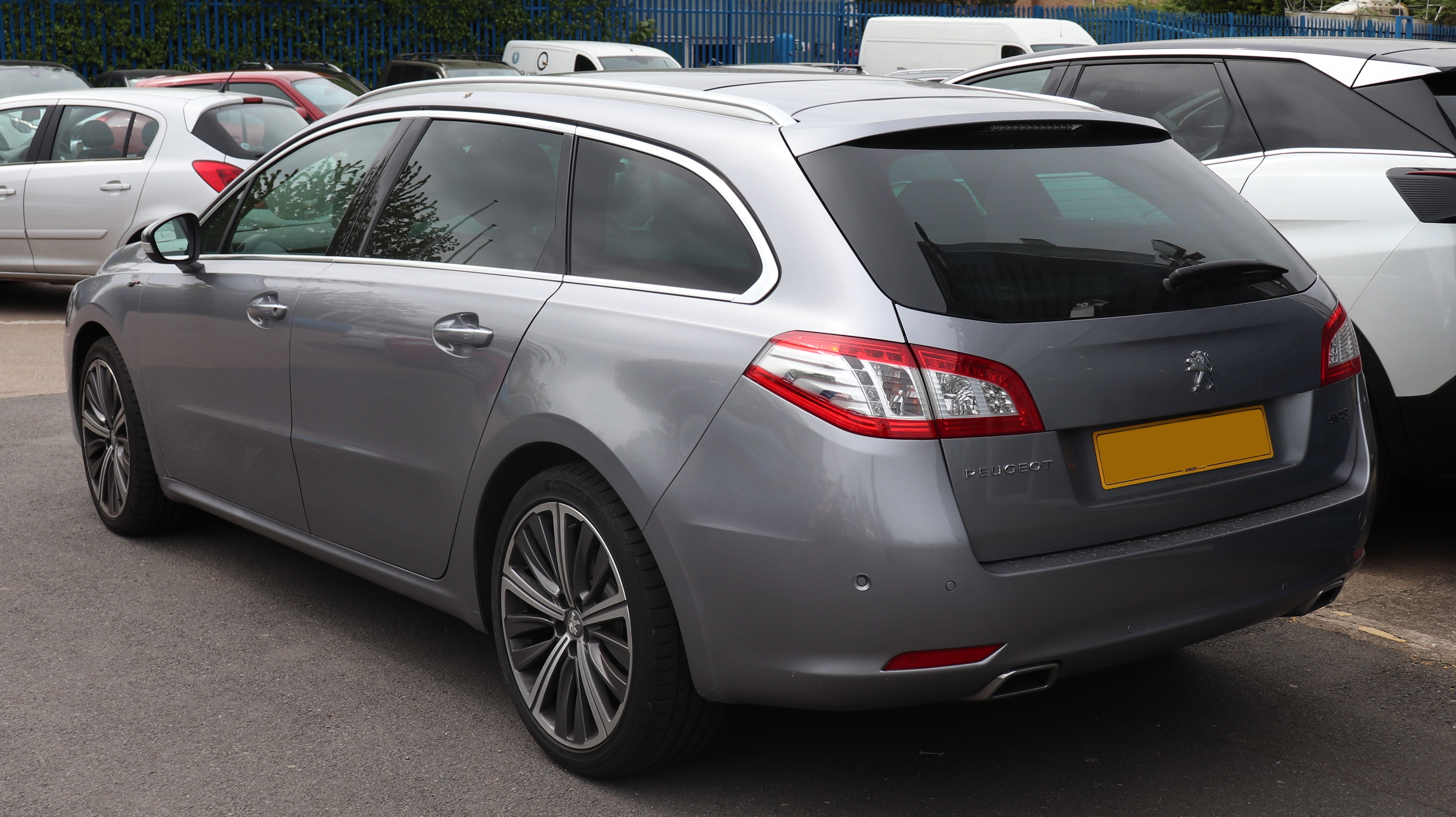 2018 Peugeot 508 GT SW HDi Automatic 2.0 Rear Taken in Leamington Spa